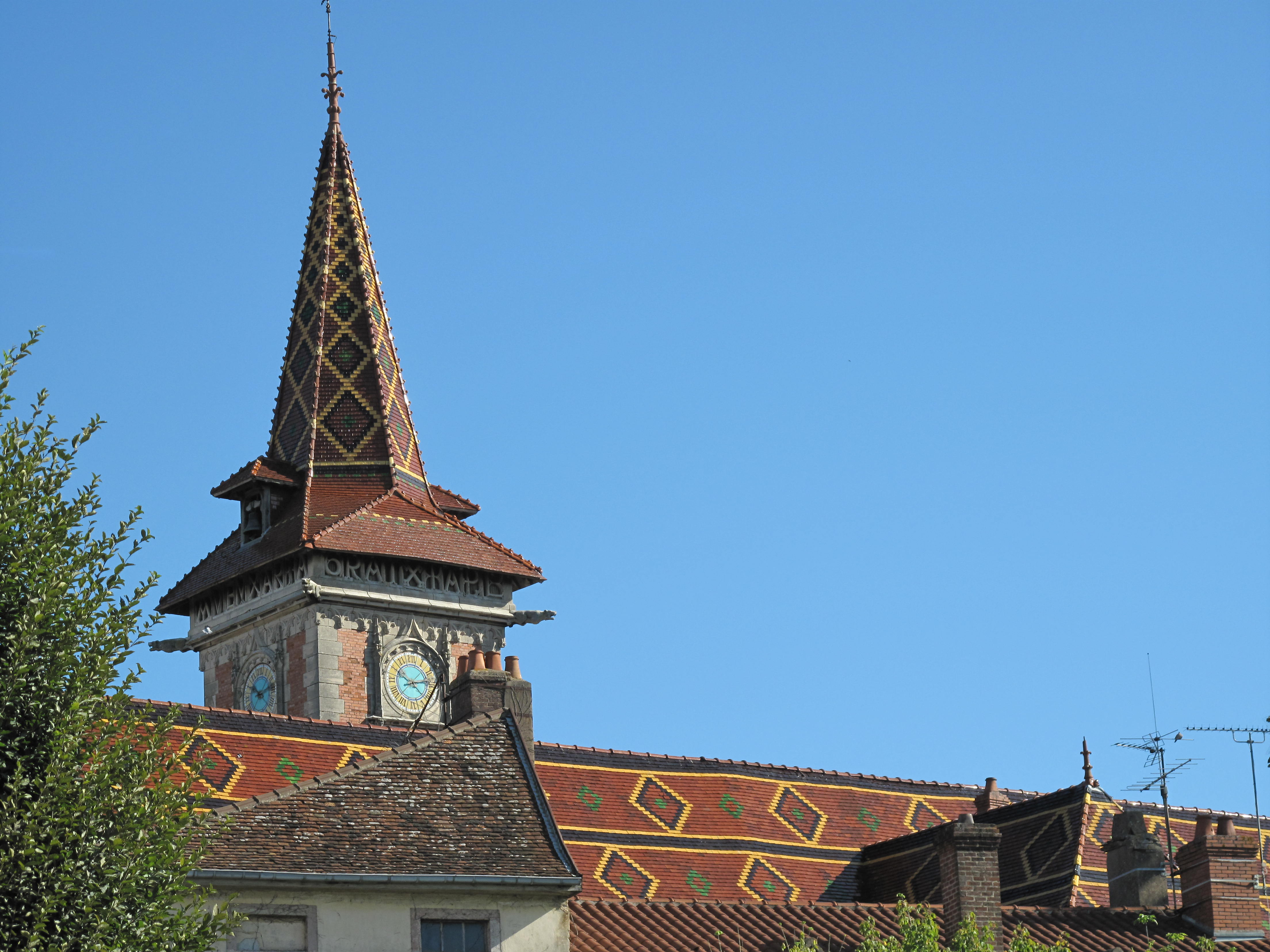 Roof of the Saint-Peter church of Louhans : Saône et Loire France